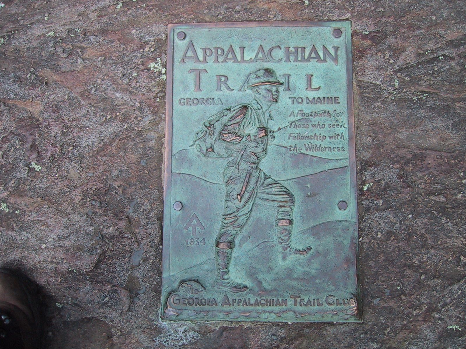 Image title: Sign at the end of the appalachian trail Image from Public domain images website